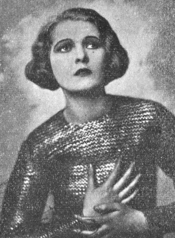 Anna-Lisa Ryding (1903-1982), Swedish actress, Seen here as Joan of Arc in Saint Joan (play) by George Bernard Shaw as performed at the city theatre of Helsingborg in 1926.